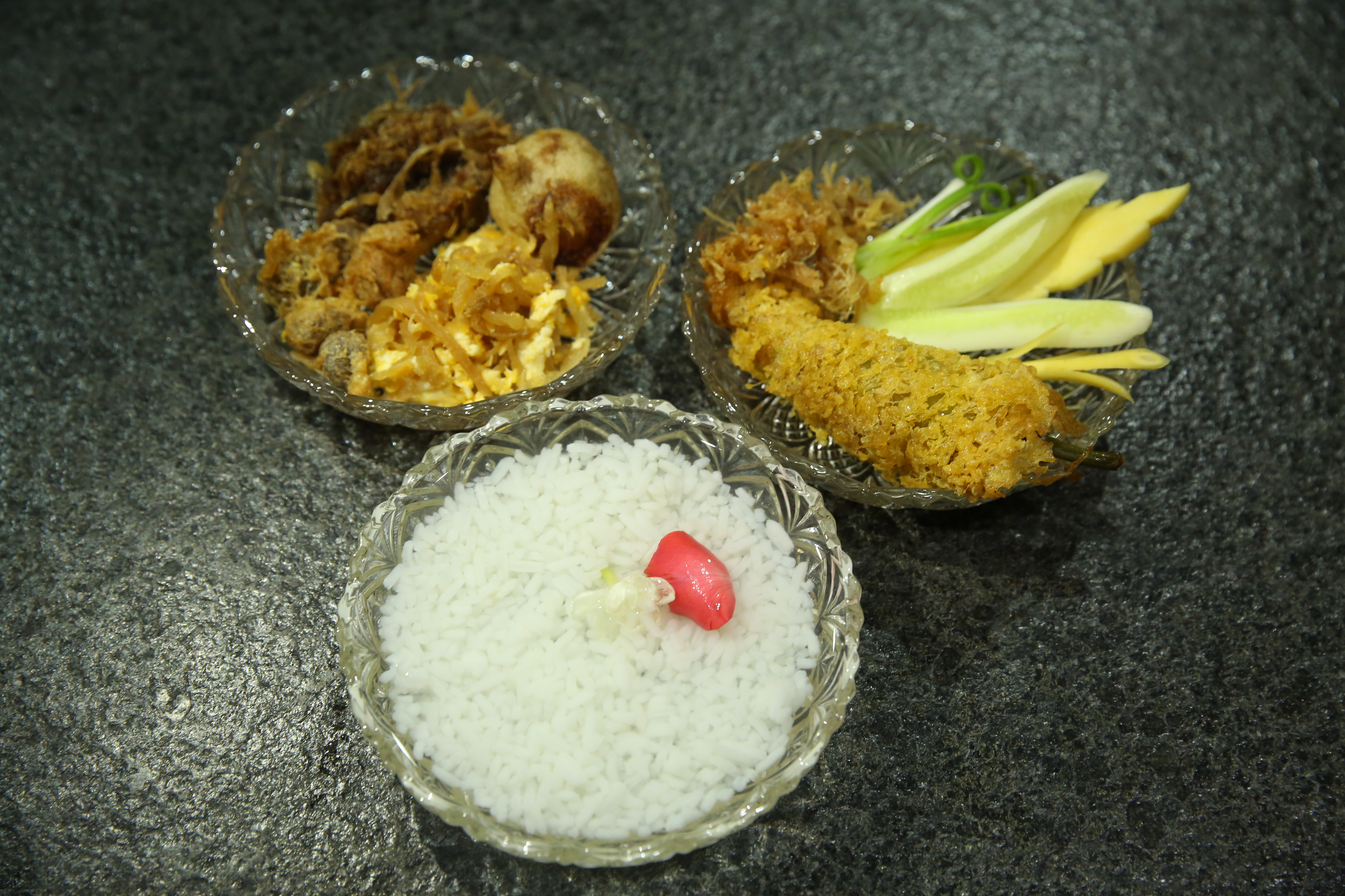 Thai dessert as rice soaked in cool water